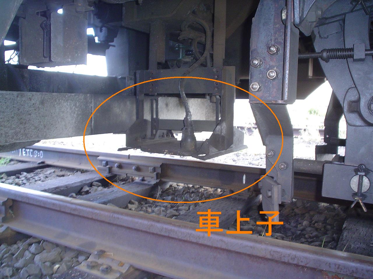 Automatic Train Stop(Car side device). JRH-kiha183-5202 on Naebo Sation. Insert Japanese description on image.